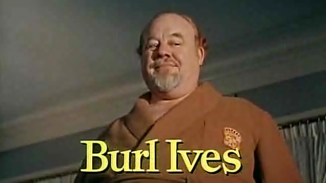 Screenshot of Burl Ives from the trailer for the film Cat on a Hot Tin Roof (film)